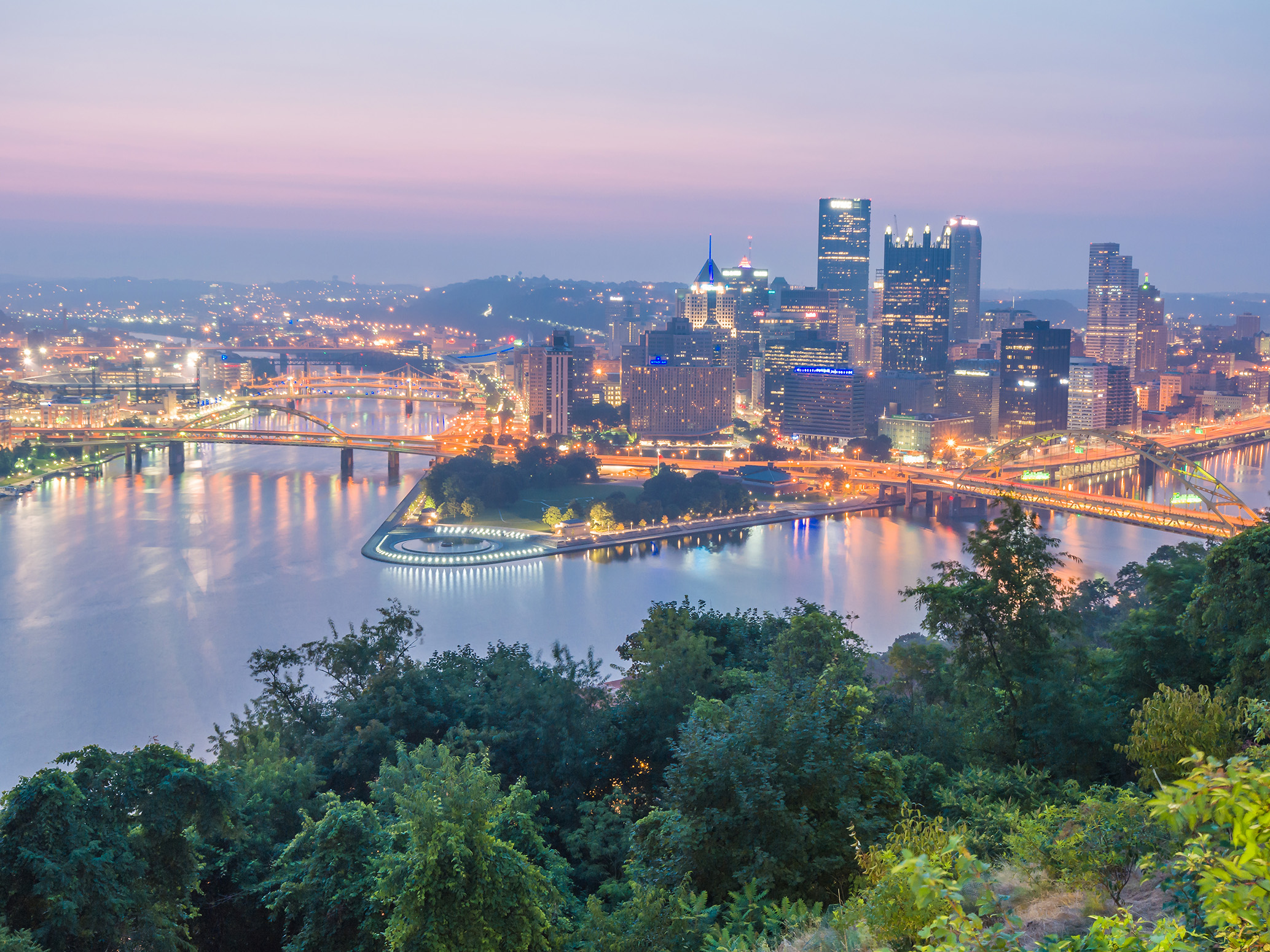 The Allegheny and Monongahela Rivers converge in Western Appalachia to form the Ohio River under the skyscrapers of Pittsburgh.